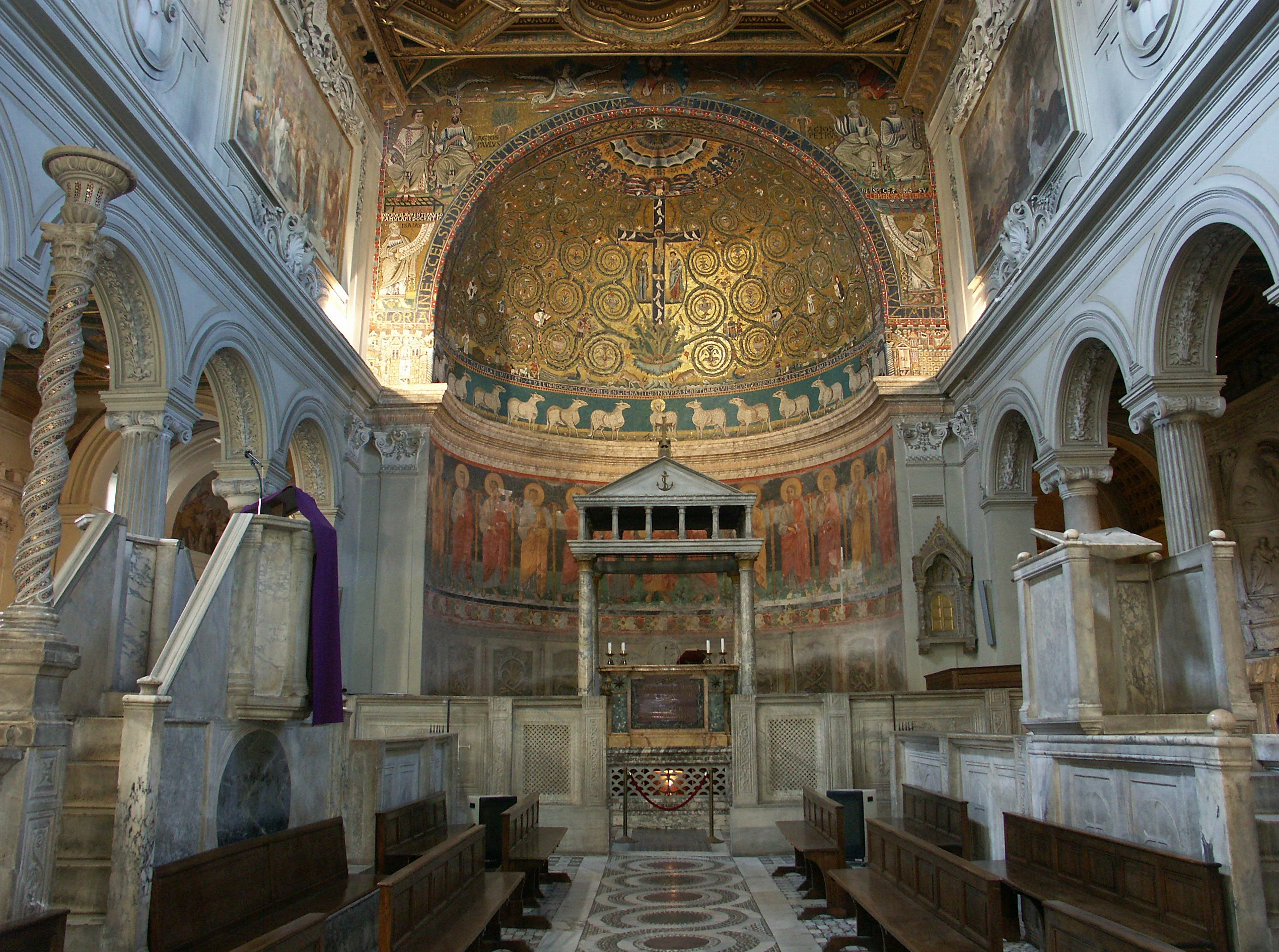 Interior of the Basilica di San Clemente, Rome, Italy.